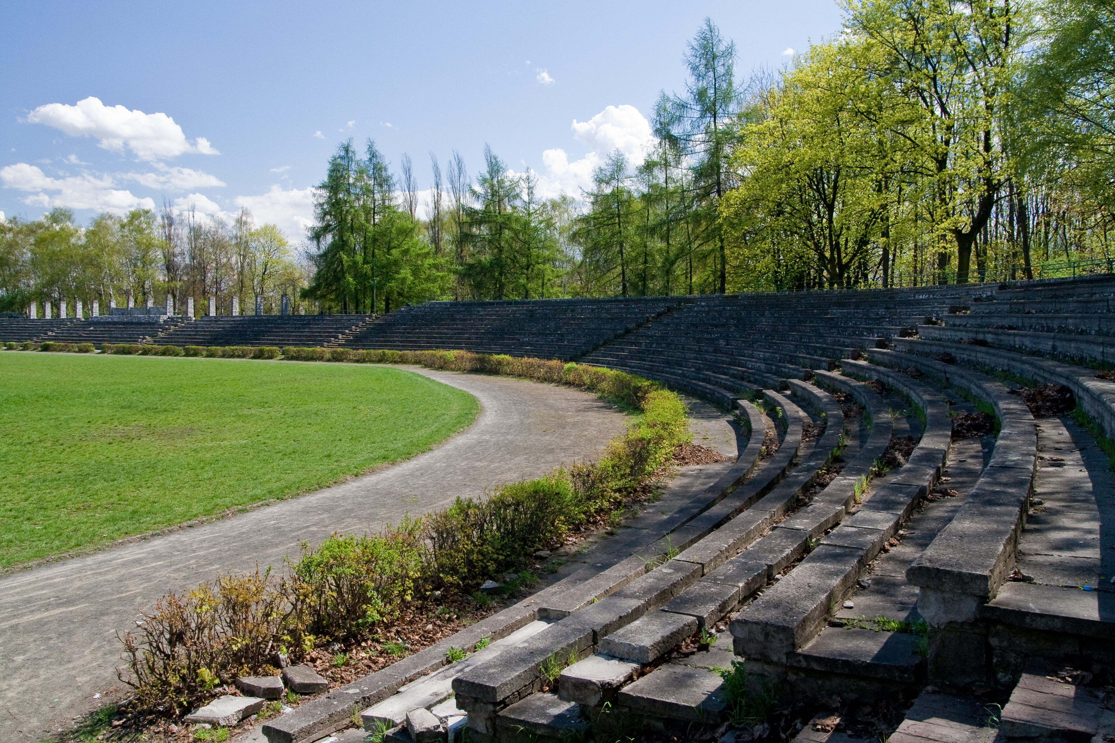 Korona Kraków Stadium